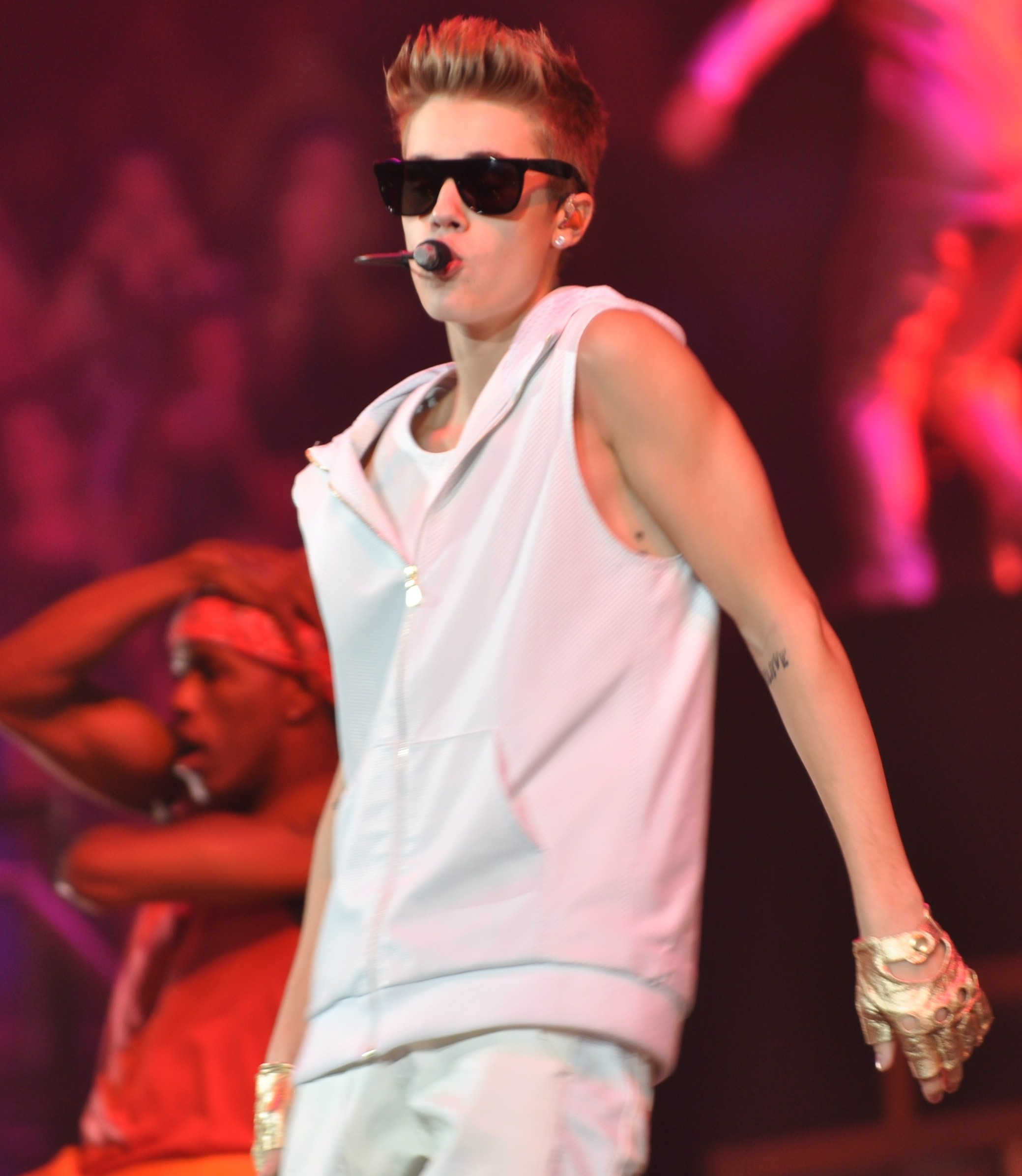 Justin Bieber performing Believe Tour in October 20, 2012.